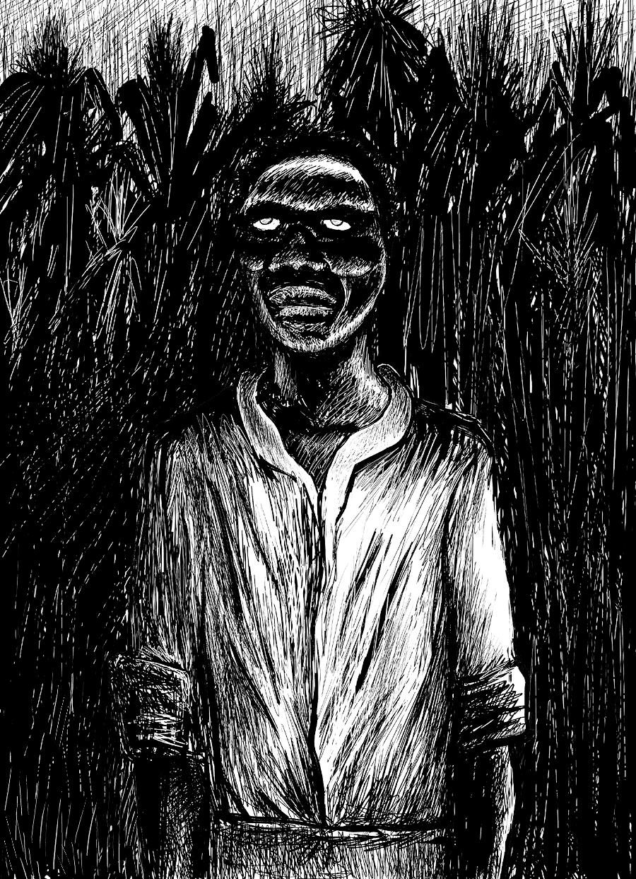 Title: "Zombie". A Zombie, at twilight, in a field of cane sugar of haïti.